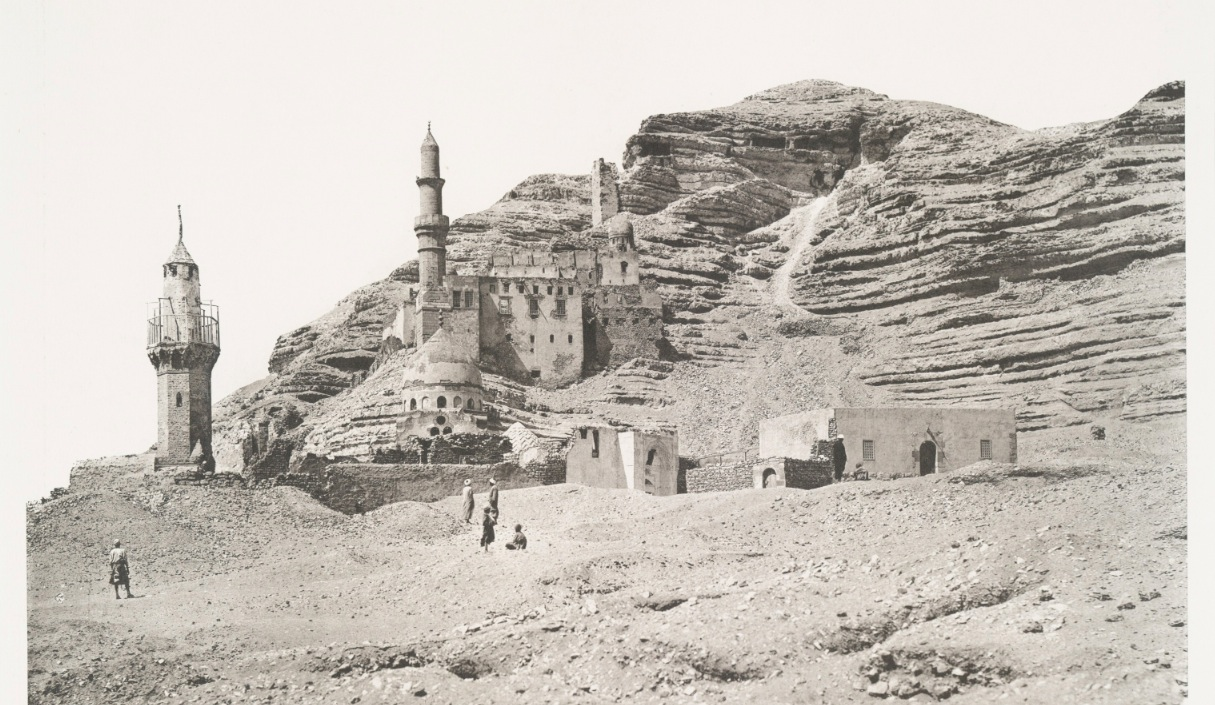 A corner of Mokattam